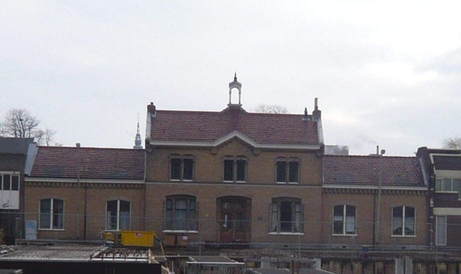 Front of Zuiderhofje during construction of Raaks complex in Haarlem.